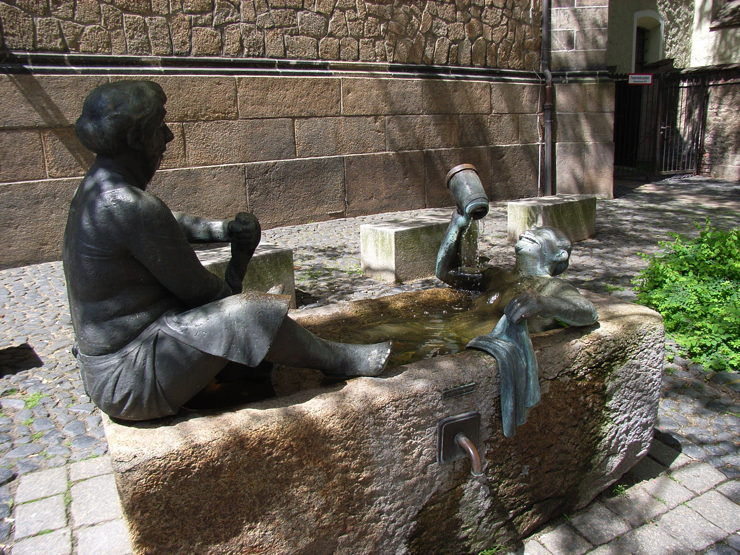 spring with a couple of carousers in Görlitz, Saxony